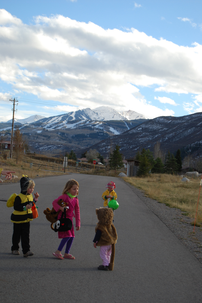 Kids on Halloween in W/J Ranch neighborhood, Woody Creek Colorado